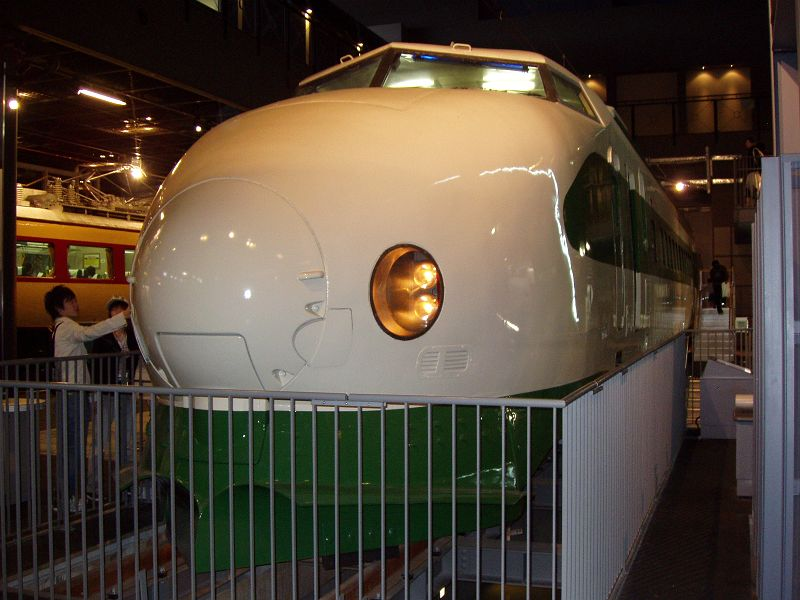 Preserved 200 series shinkansen car 222-35 on display at the Railway Museum in Saitama, Japan